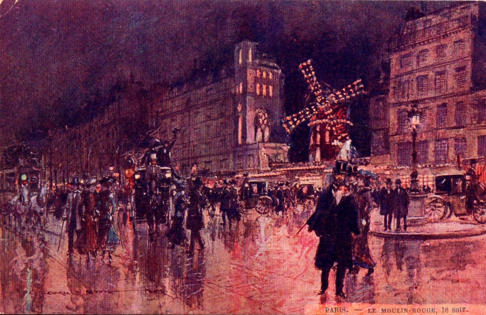 Paris. Georges Stein. Le Moulin Rouge, le soir.(Moulin Rouge, after dark). Postcard, c.1910. Publisher: Unknown.